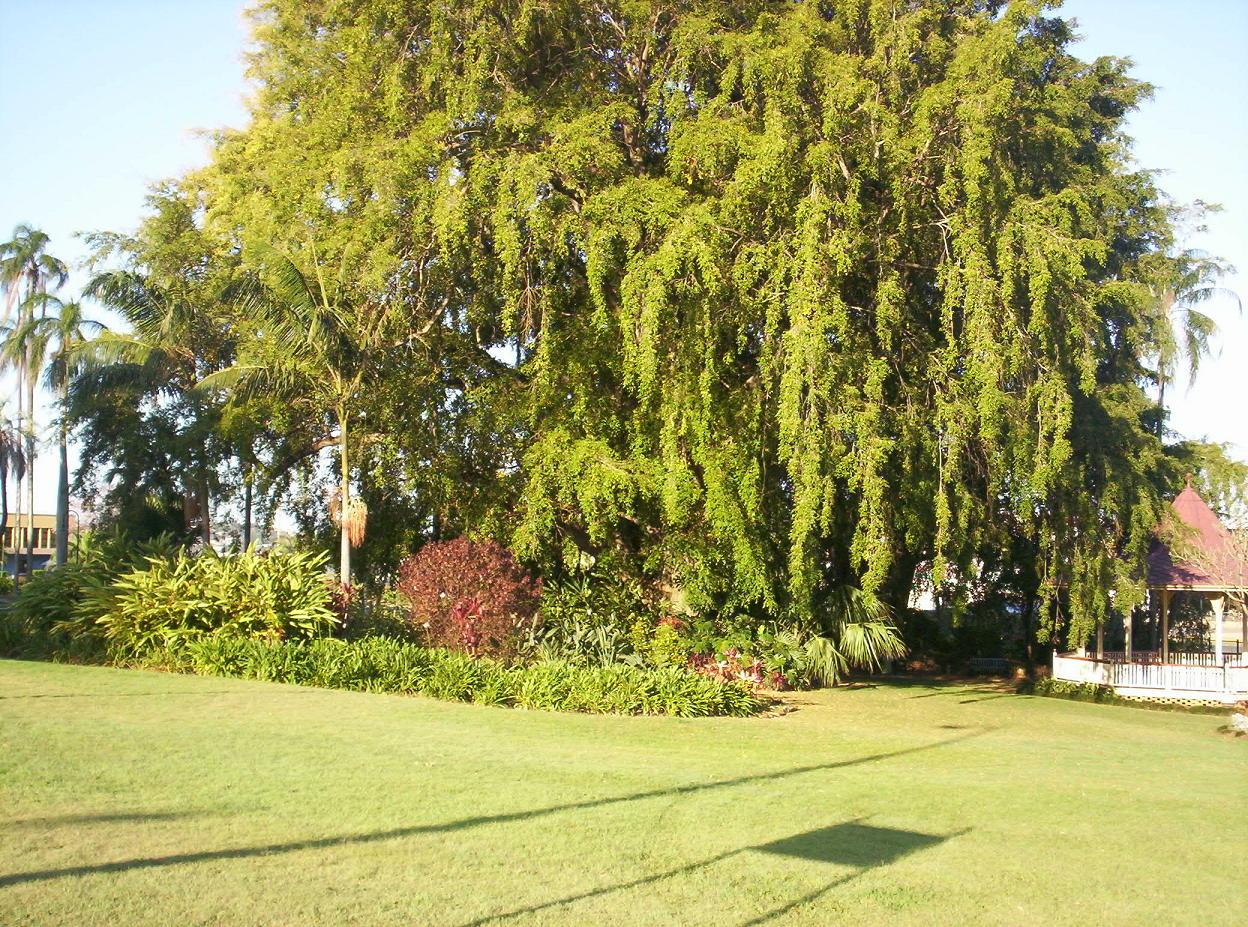 Bowen Park, Brisbane ( this photograph was taken by Figaro )